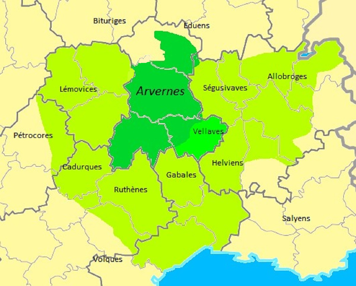 Les Arvernes et peuples clients sous le règne du Roi Luern d'après l'ouvrage "Les peuples fondateurs à l'origine de la Gaule"